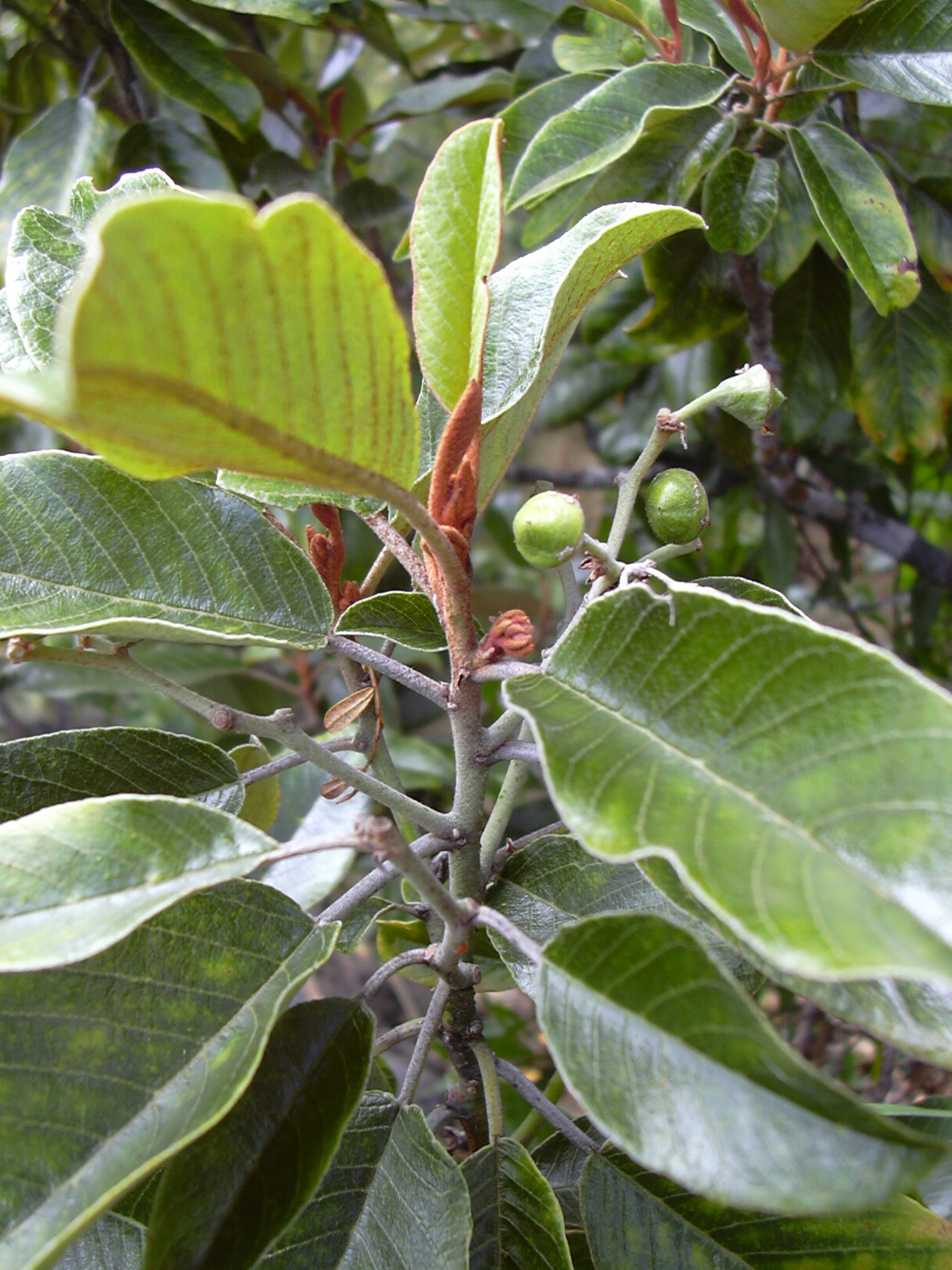 Alphitonia ponderosa (leaves and immature fruits). Location: Maui, Auwahi